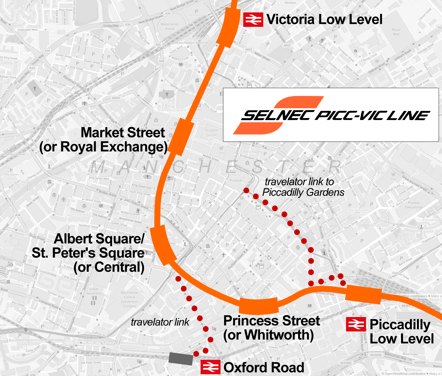 Map based on the 1971 proposal for an underground railway in Manchester City Centre. The project was cancelled in 1977. This map may be incomplete, and may contain errors. Don't rely solely on it for navigation.